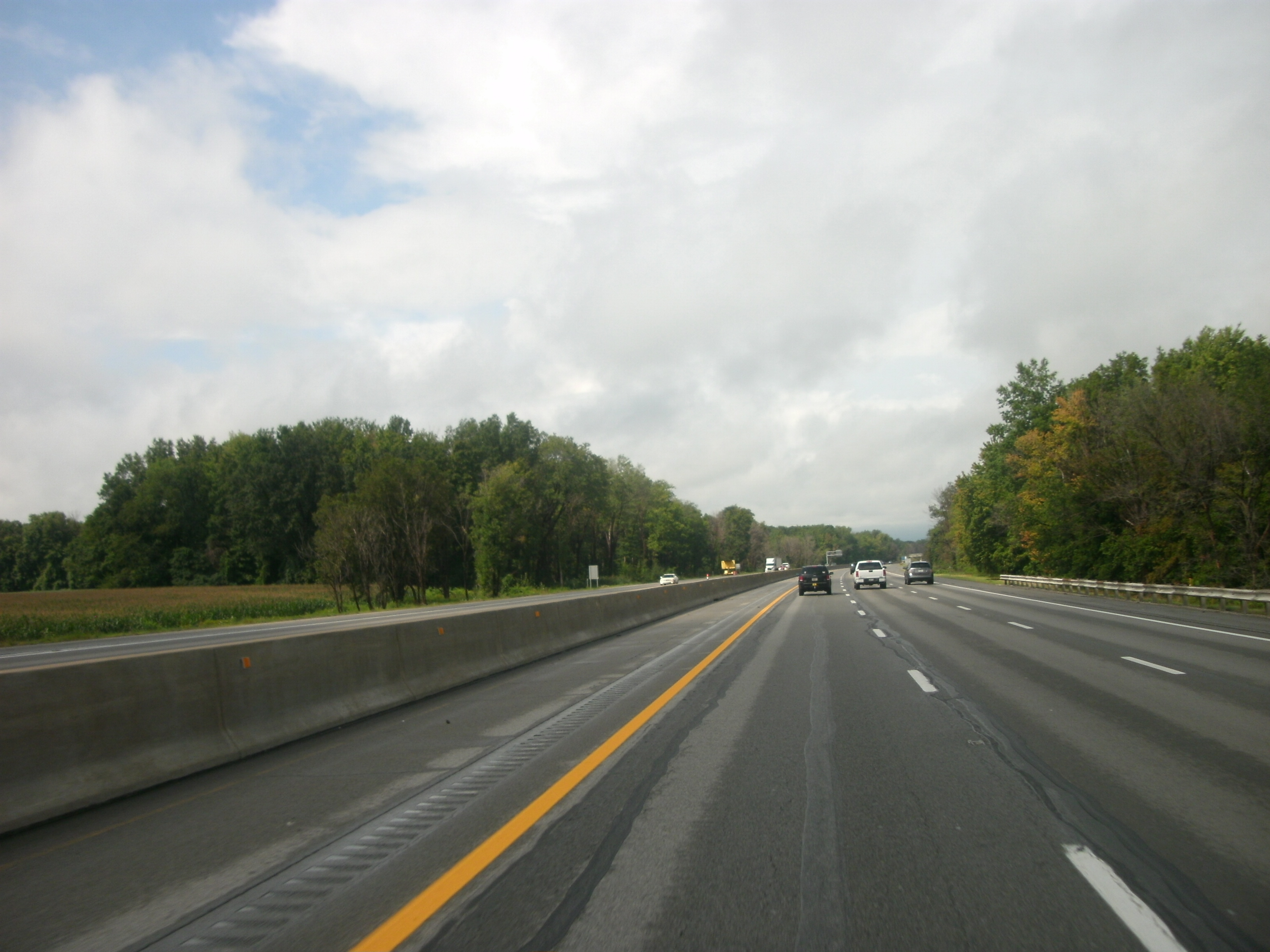 Interstate 80 and Interstate 90 on the Ohio Turnpike south of Vermilion, Ohio.